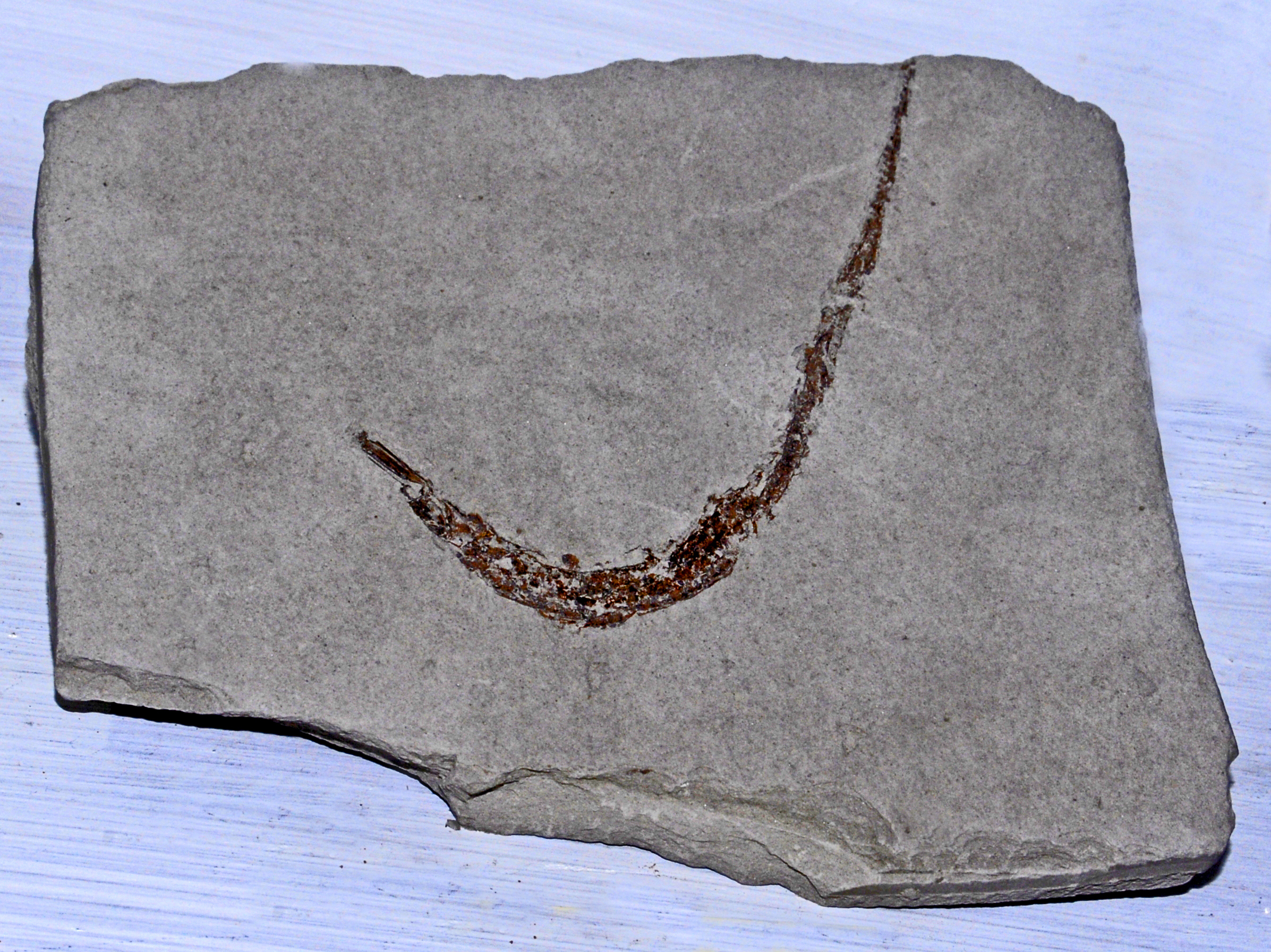 Fossil of "Syngnathus acus" from Pliocene of Italy, on display at Museo Geologico G. Cappellini, Bologna